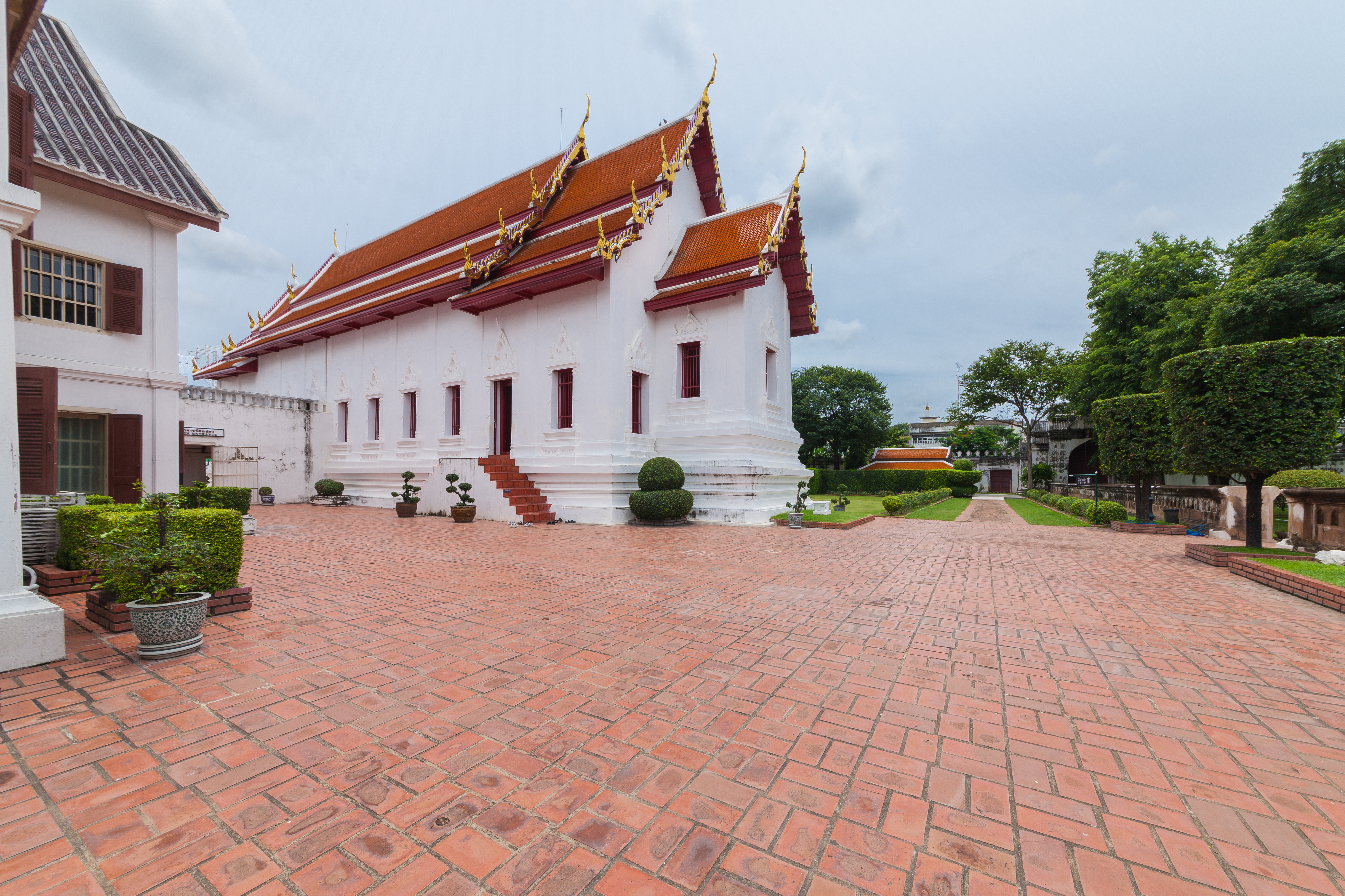 Chantara Phisan Hall at Narai Ratcha Niwet, Lopburi.